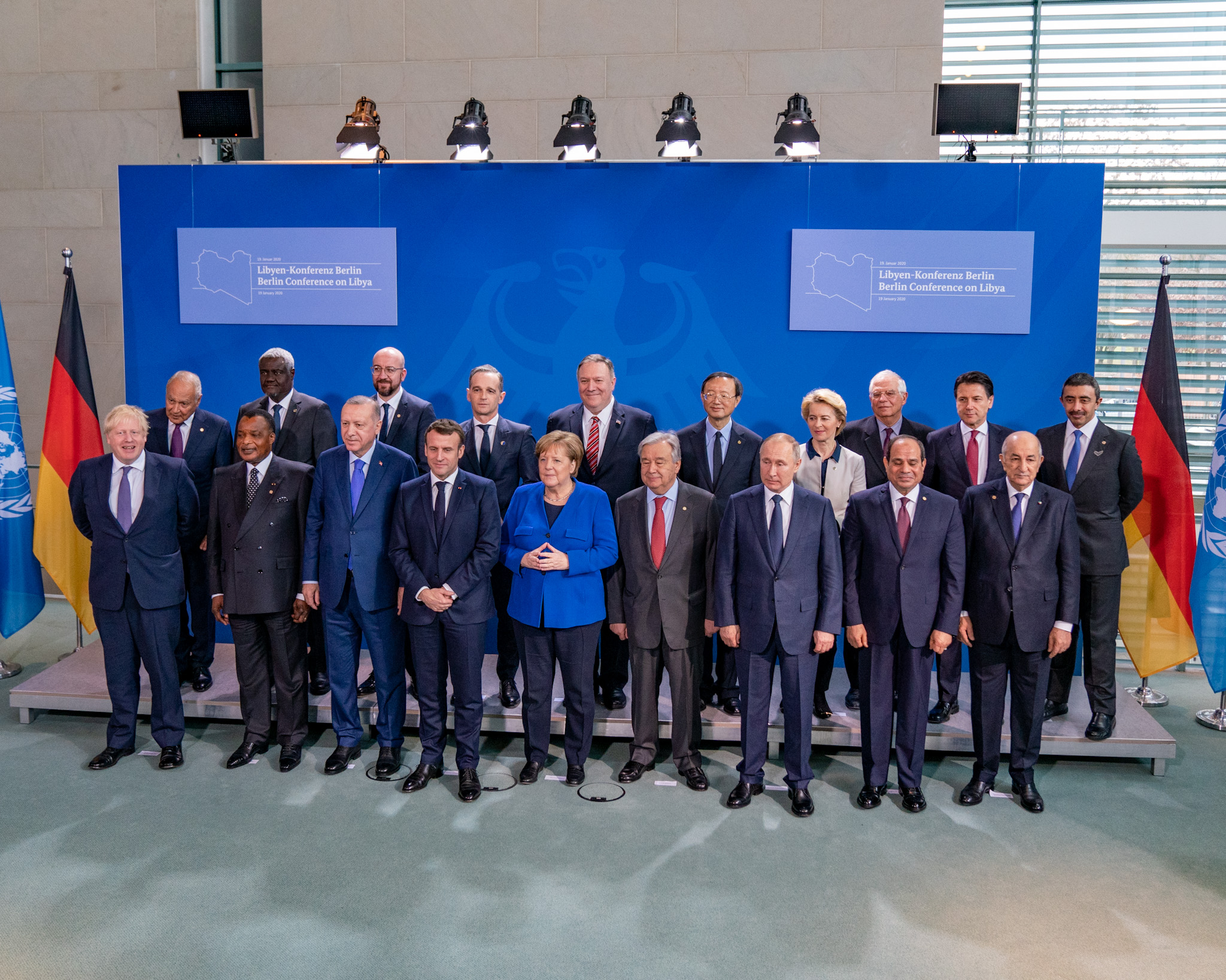 Secretary of State Michael R. Pompeo meets with world leaders at the Libya Summit in Berlin, Germany, on January 19, 2020. [State Department Photo by Ron Przysucha/ Public Domain]